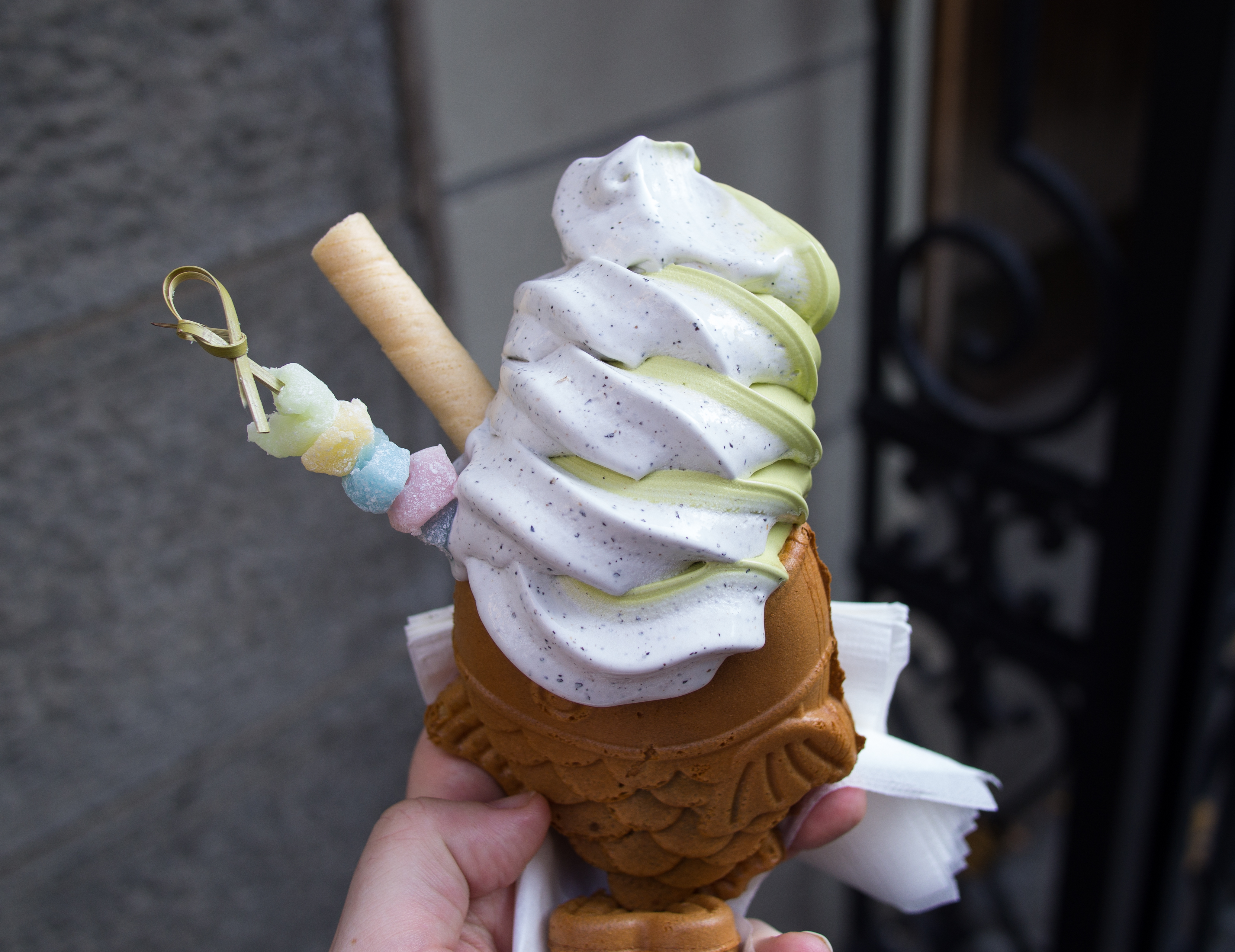 Taiyaki with melting red bean and matcha swirl ice cream, with mochi and a wafer cookie sticking out.